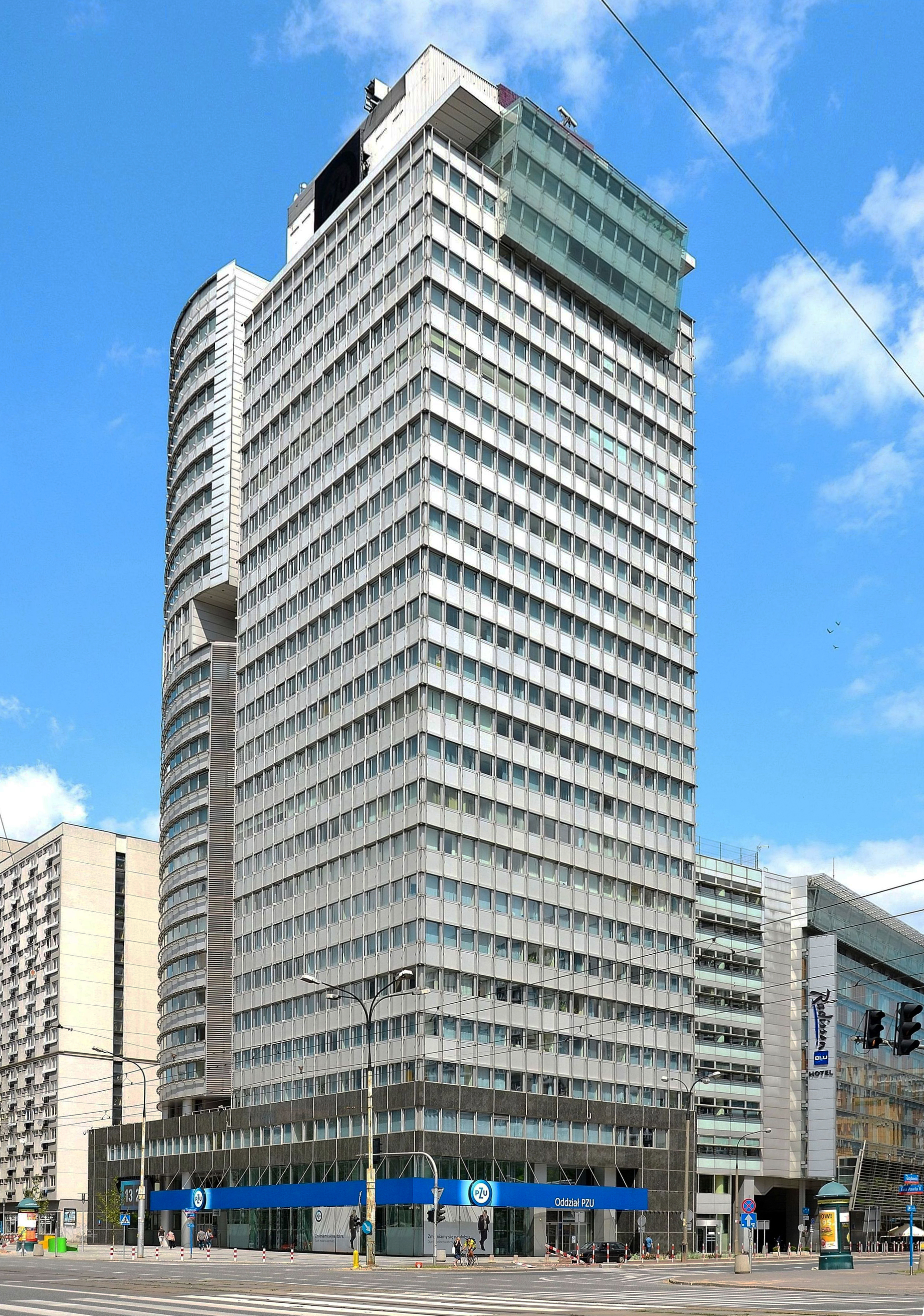 PZU Tower, headqaurters of PZU Group, at the intersection of John Paul II Avenue and Grzybowska Street in Warsaw